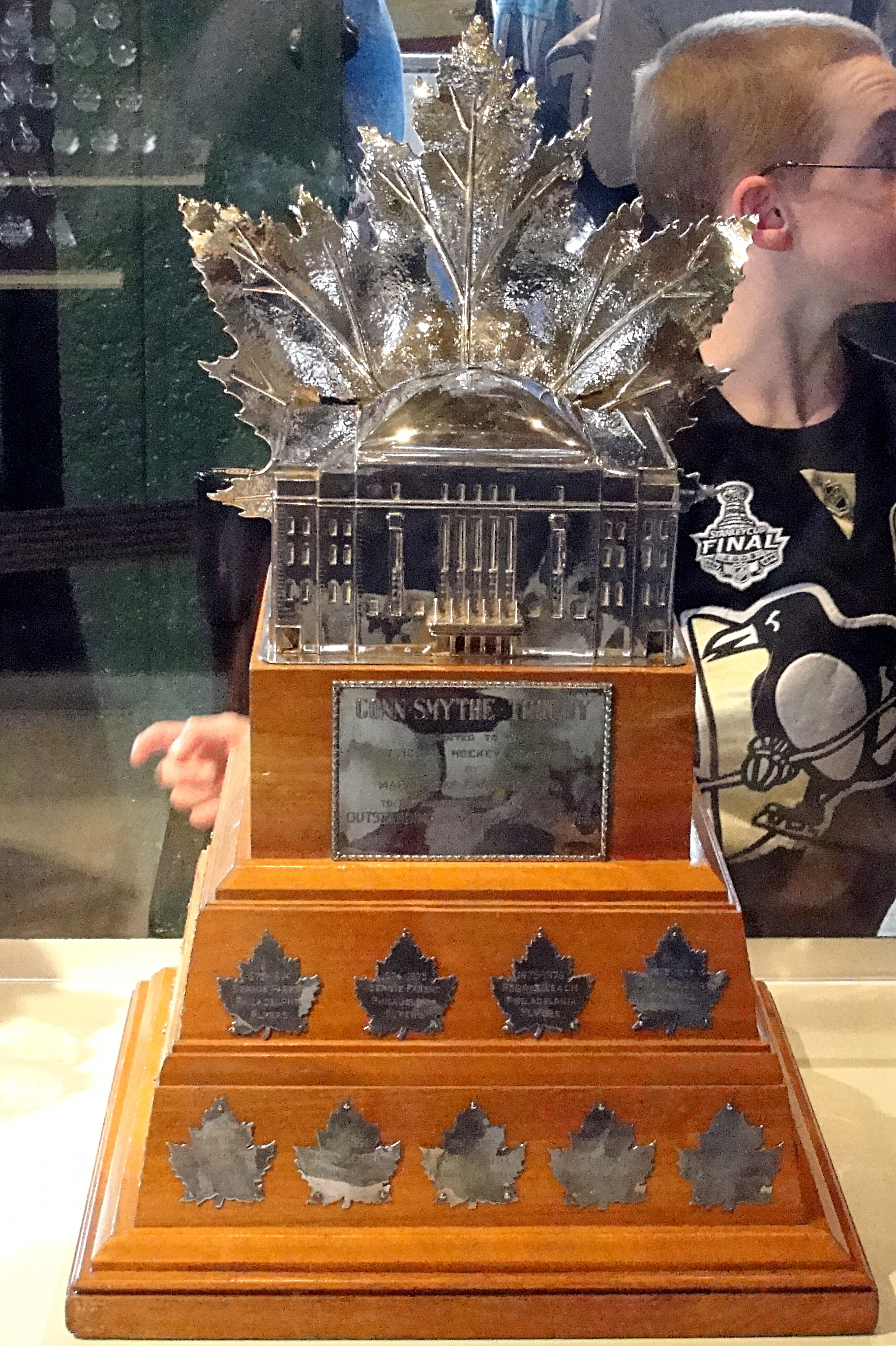 The Conn Smythe Trophy on display at the Heinz History Center in Pittsburgh, PA, April 3, 2010.